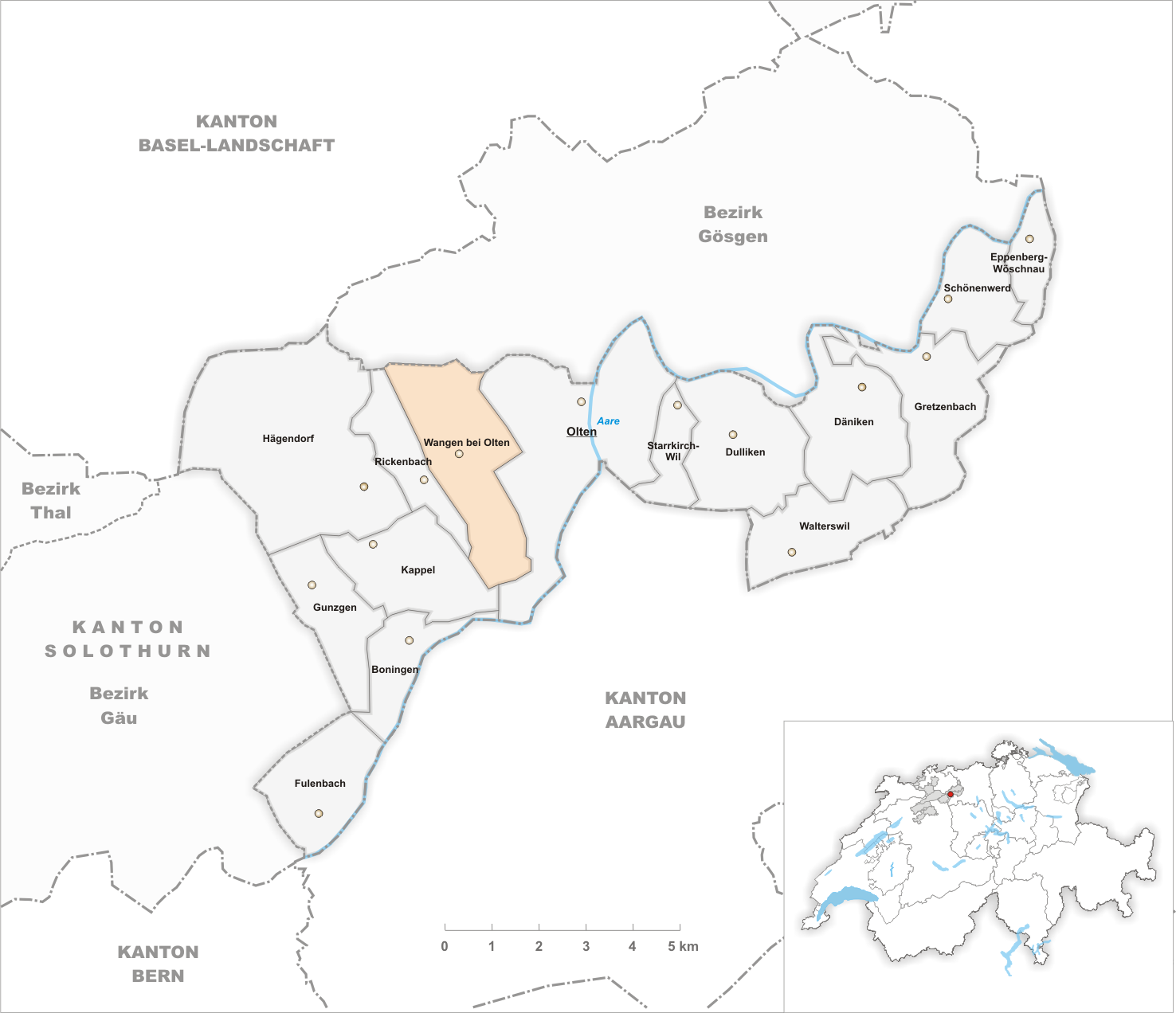 Municipality Wangen bei Olten